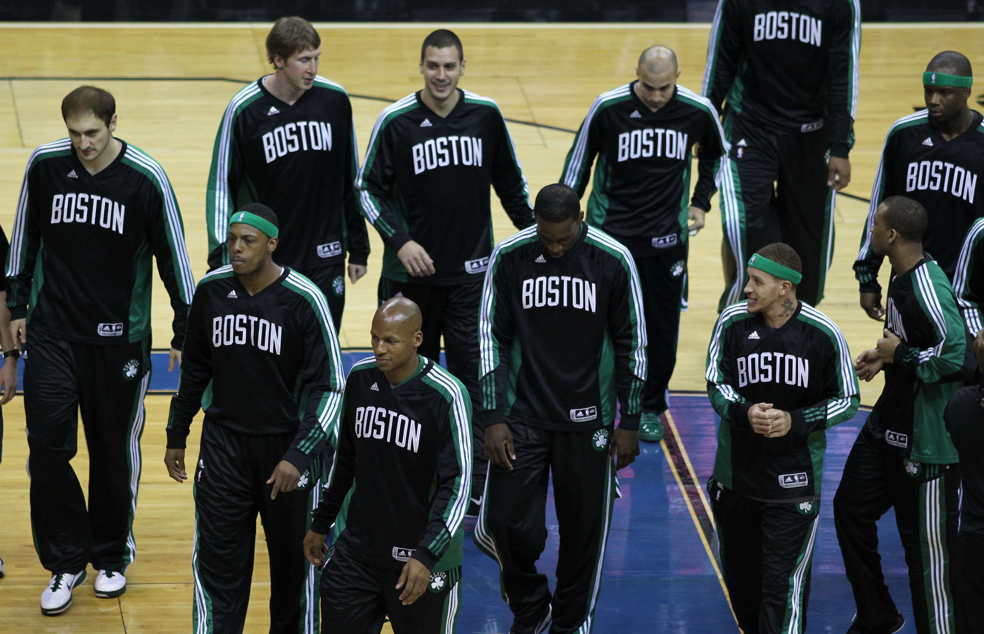 Boston Celtics playing against the Washington Wizards on April 11, 2011.